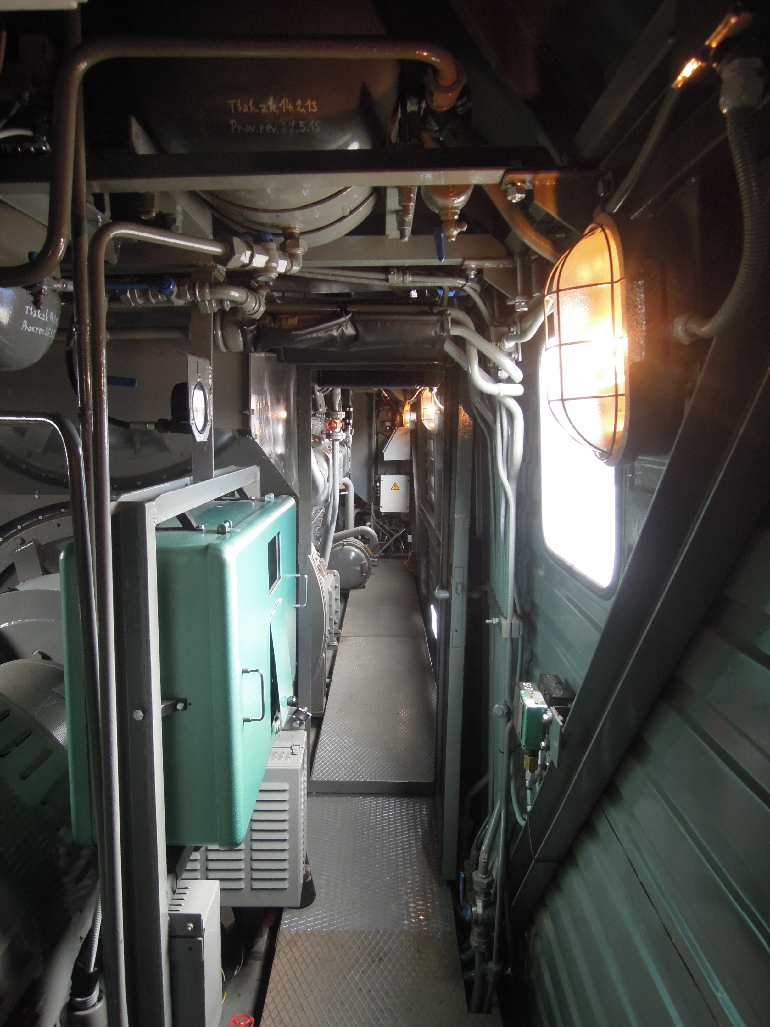 Diesel locomotive class 759 of České dráhy at the Czech Raildays 2015 trade fair in Ostrava, Czech Republic